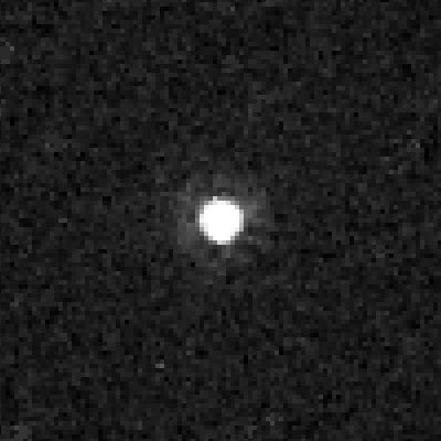 Hubble Space Telescope image of the plutino 28978 Ixion, taken on 5 February 2006.